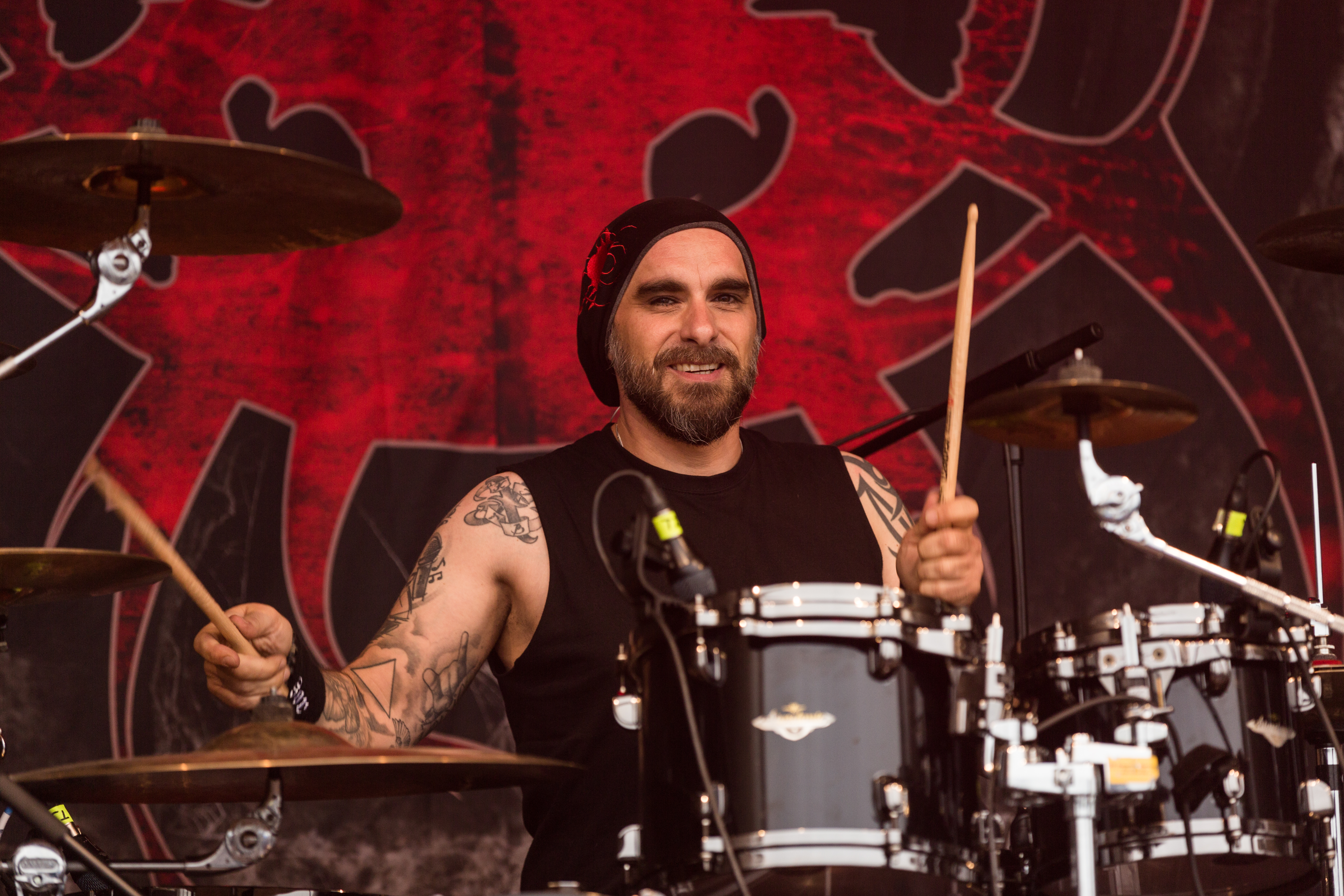 The German heavy metal band Rage at the Metal Frenzy 2017 in Gardelegen/Germany.